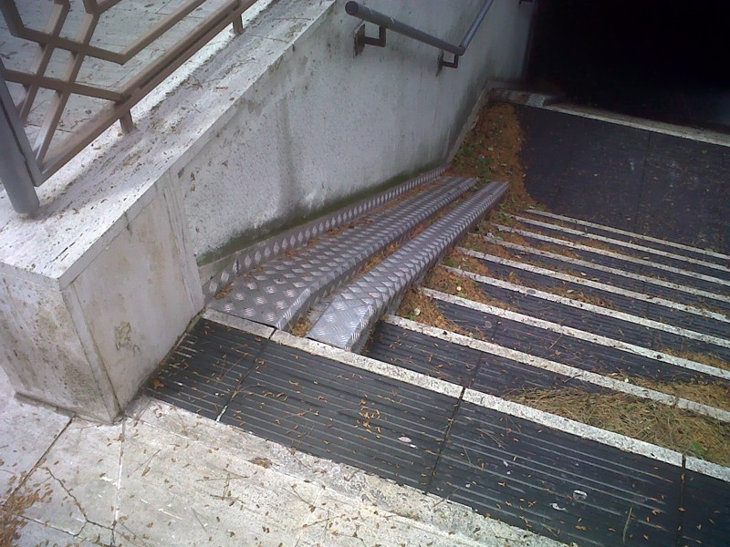 Foot tunnel equipped to assist transit bicycle hand